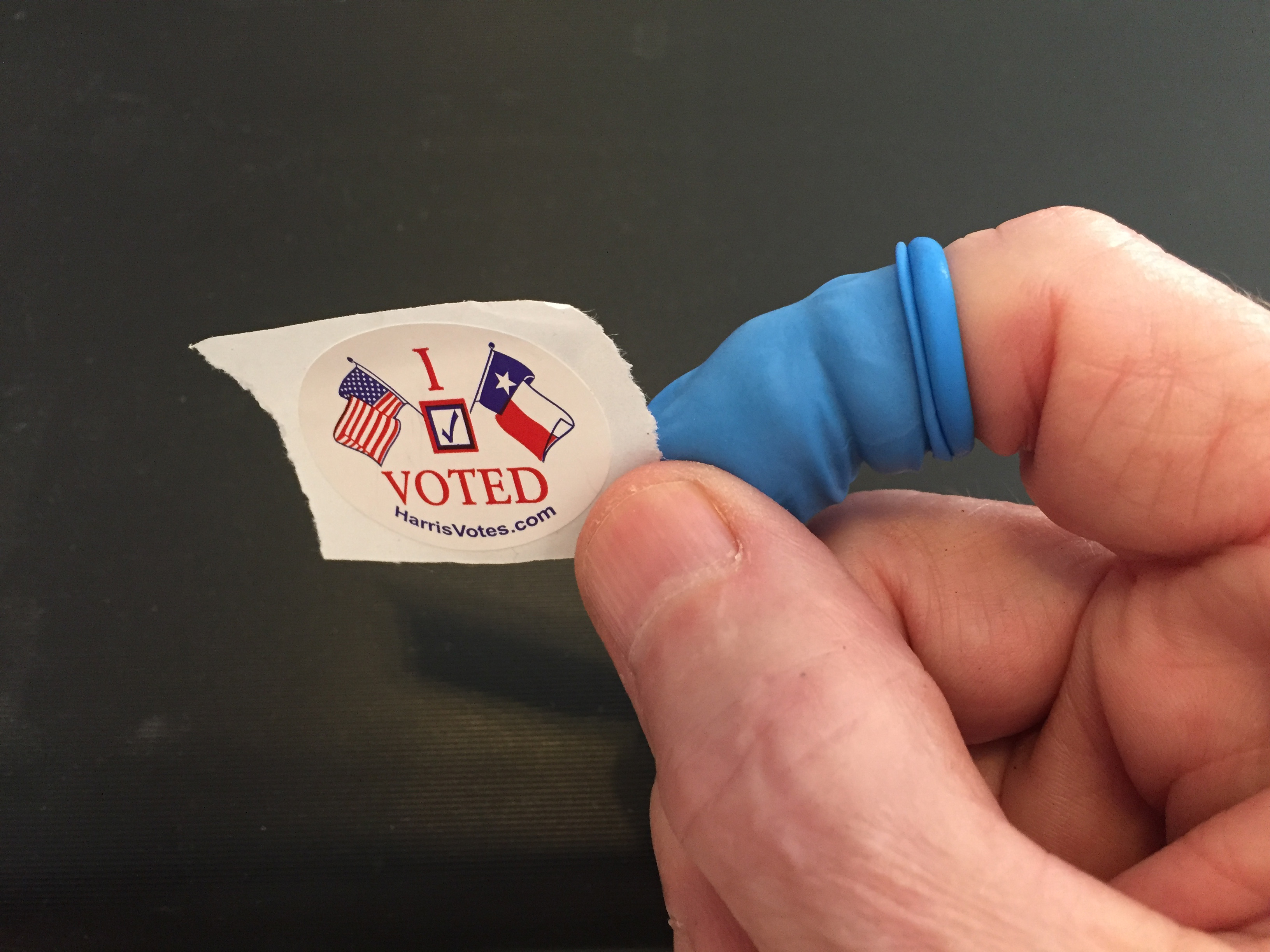 (archive d.d. 6 July, 2020). Caption: "I just got back from voting early in the Texas Democratic Primary. The simple act that I've performed so many times had a very positive effect on me today, reminding me that, though we are dealing with many things these days, we have some control over some, and we have control over the choice of those we choose to address others."